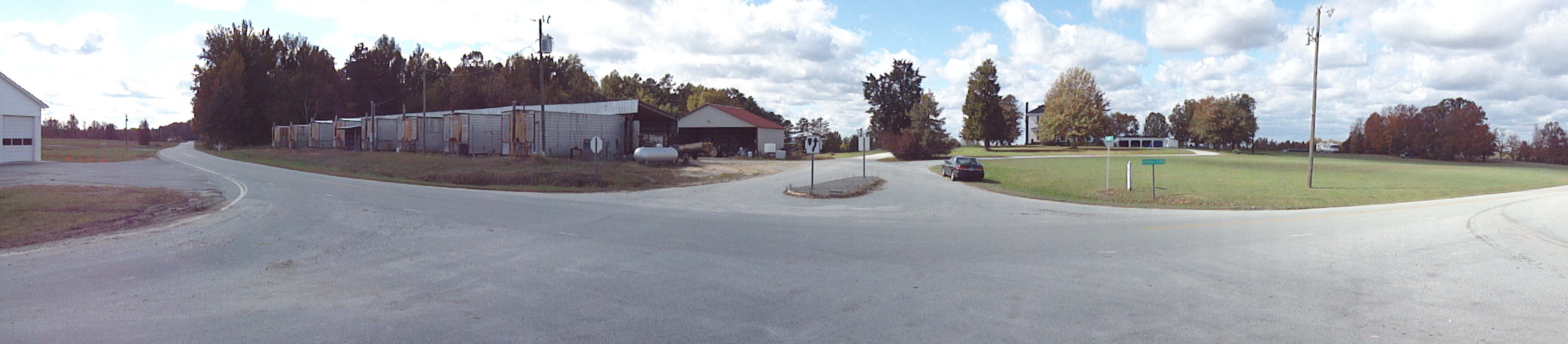 October 20, 2011